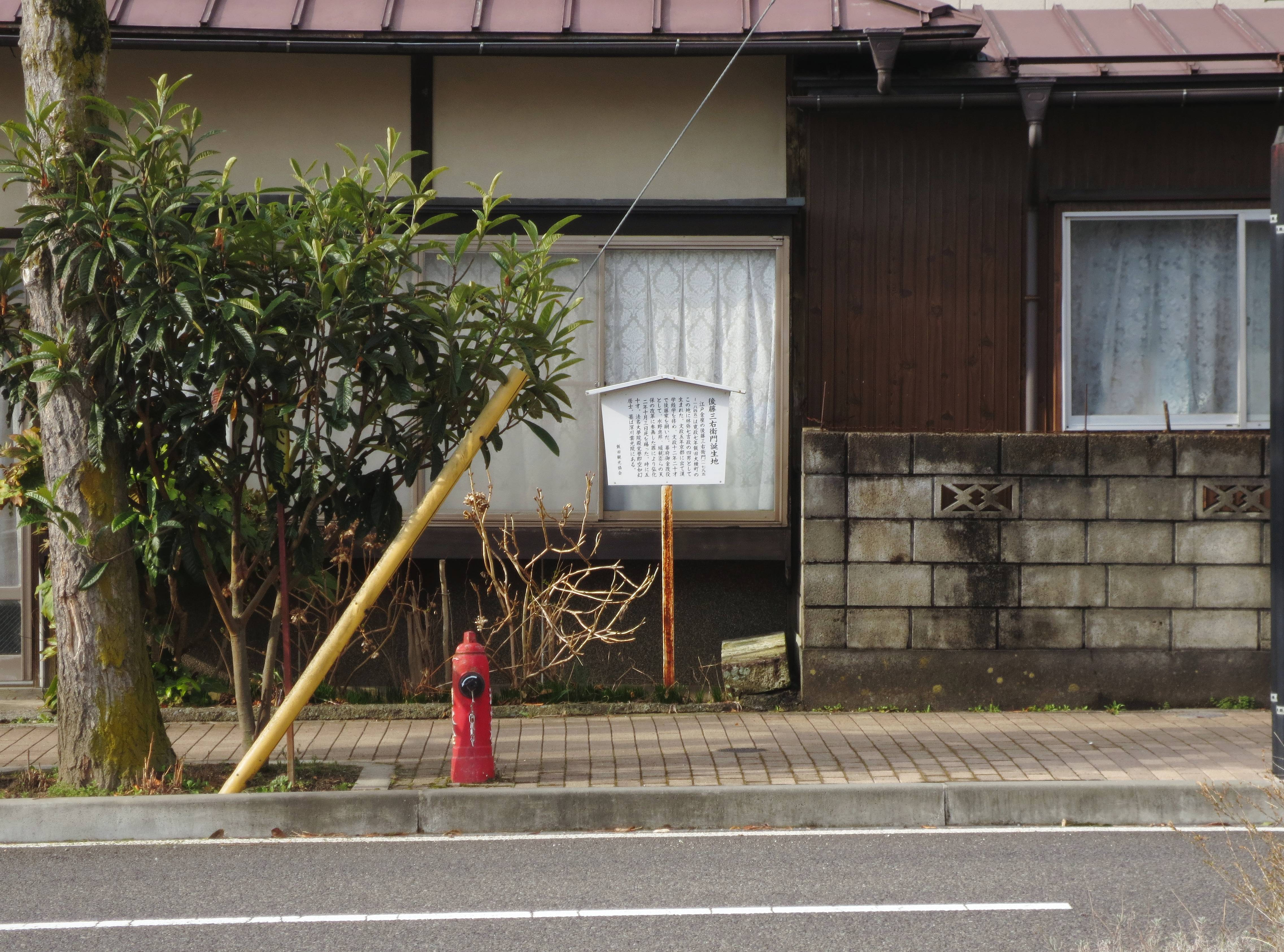 Goto San'emon birthplace.